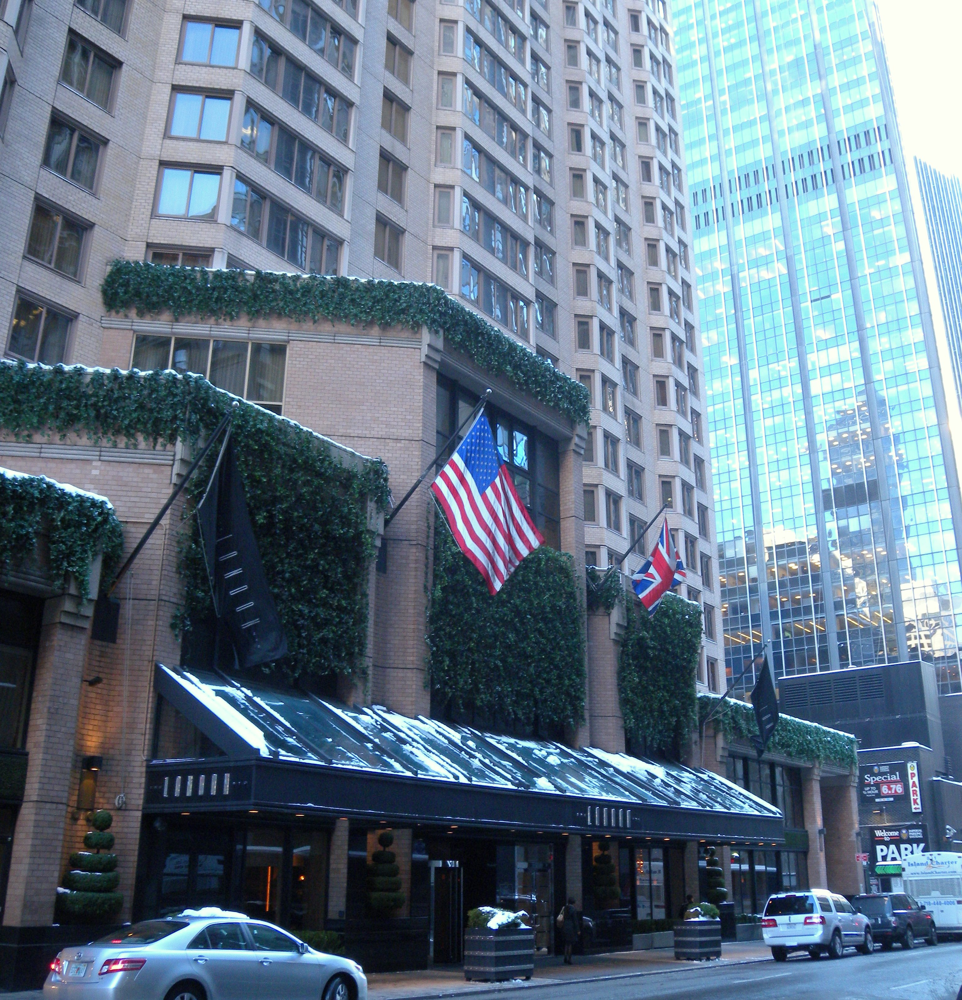 Looking east across West 54th at London NYC Hotel entrance.